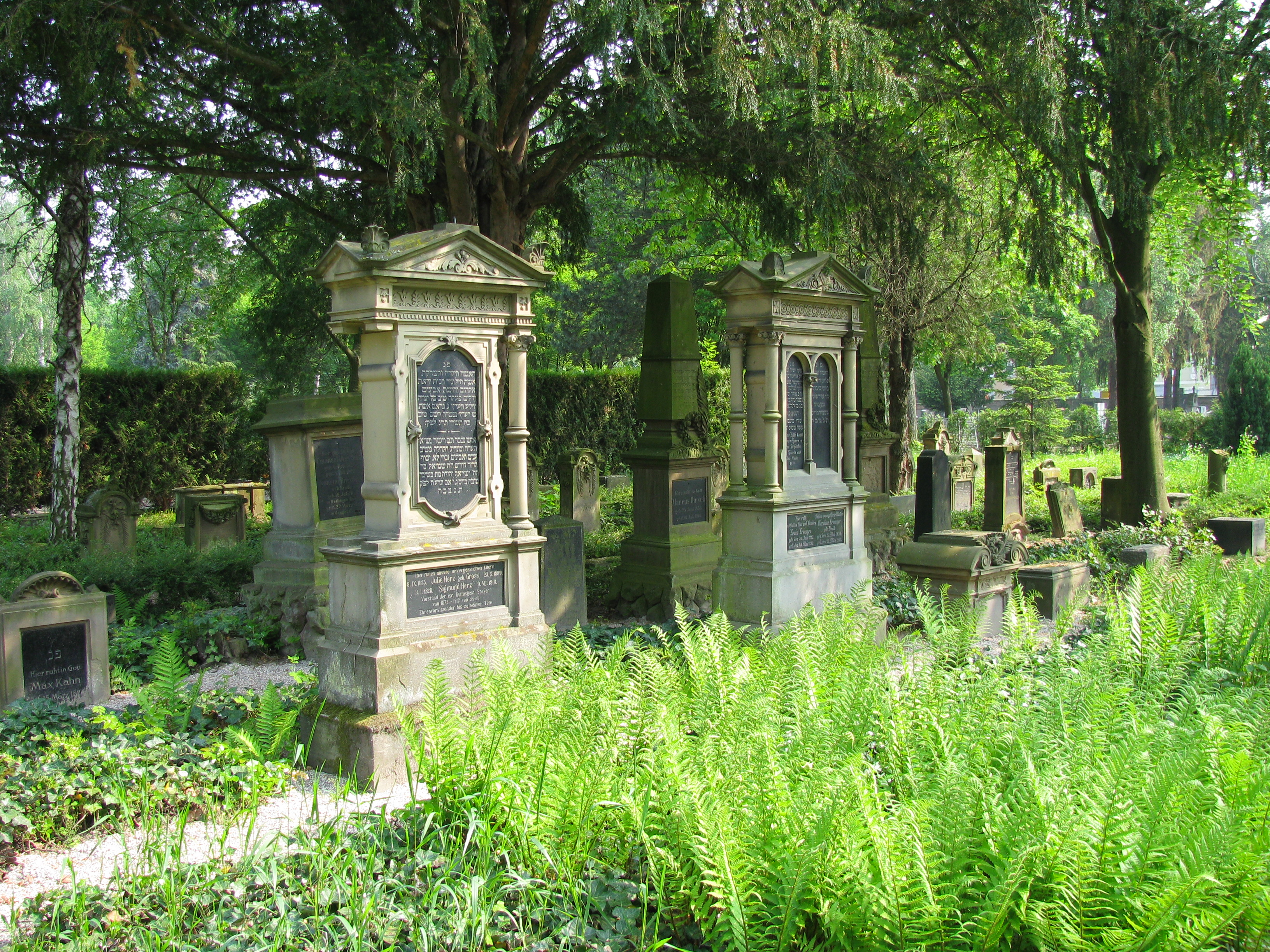 Jewish cemetery Speyer, in use until 1940s and from 1990